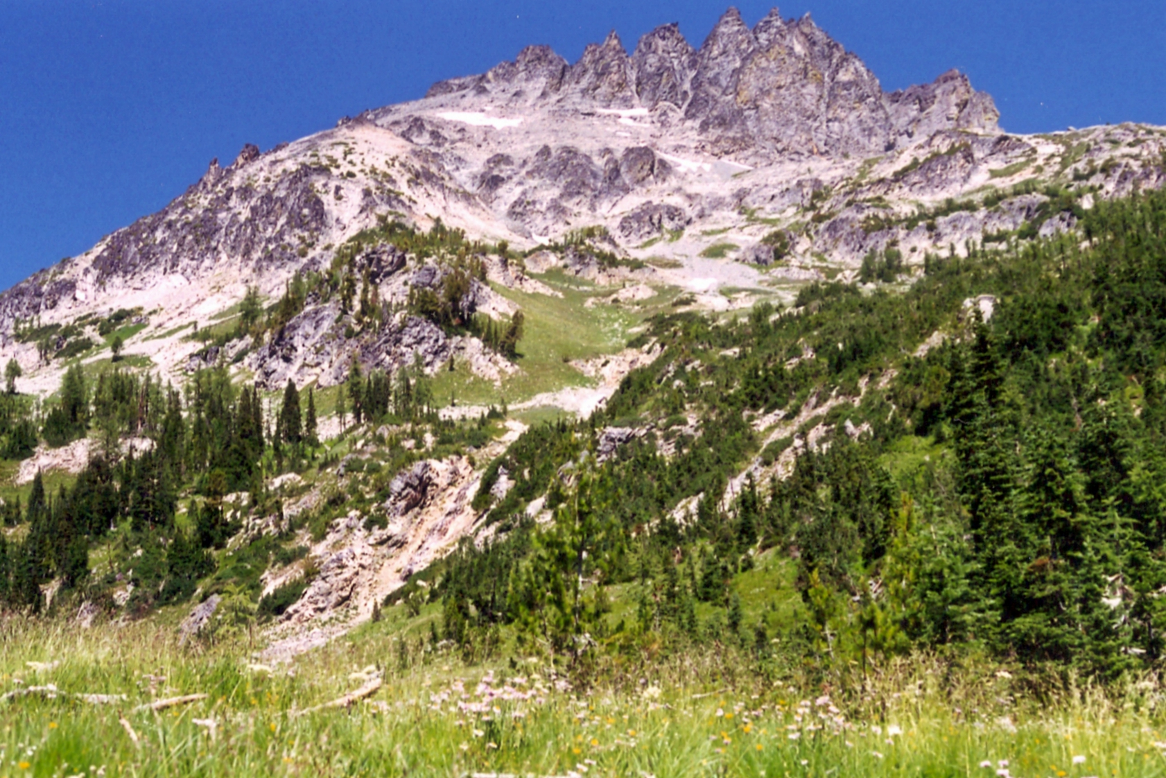 Seven Fingered Jack seen from Leroy Creek Basin. North Cascades, Entiat Range.